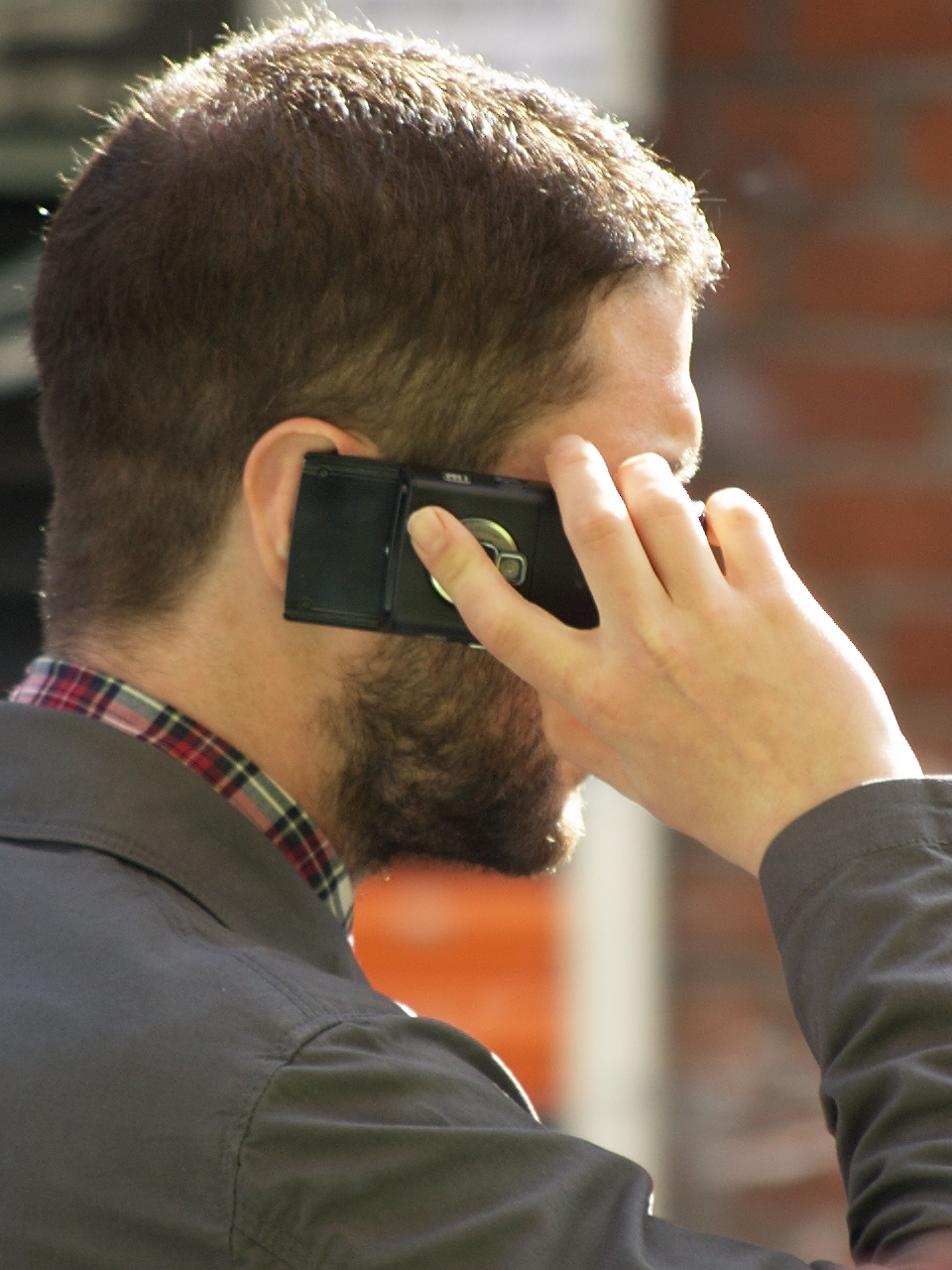 A man speaking on a mobile telephone